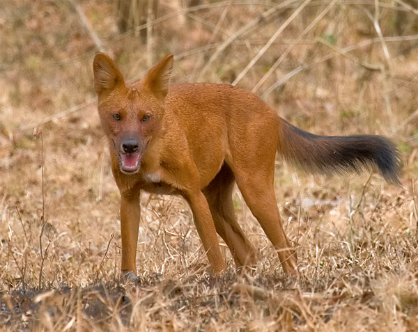 Wild dog / Dhole in Nagarahole